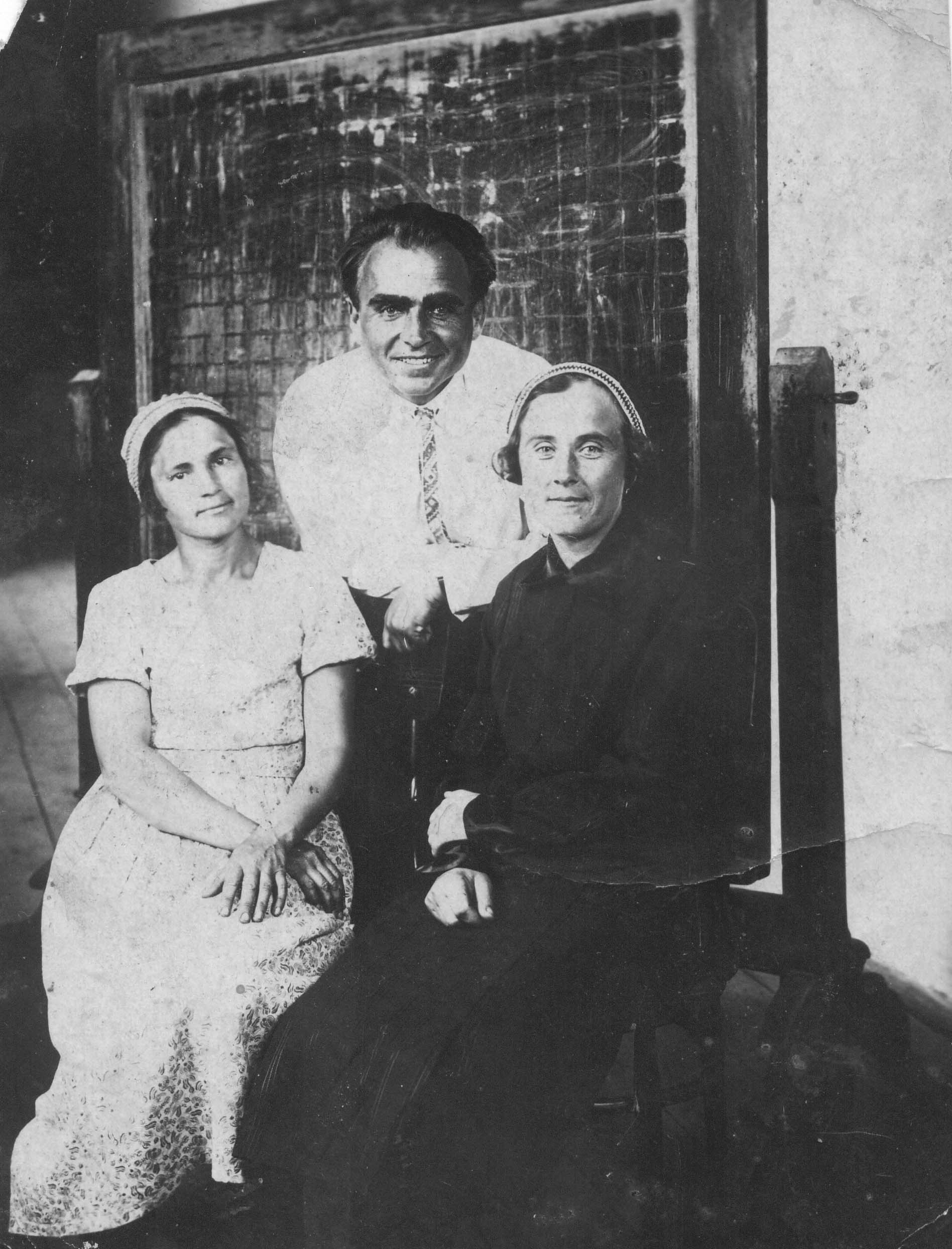 Illarion Kurylo-Krymchak with his wife and an unknown woman